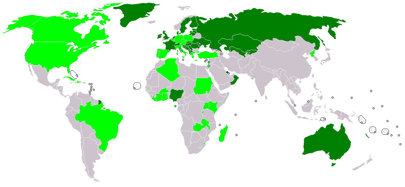 Dark green - ratified; light green - signed, not yet ratified